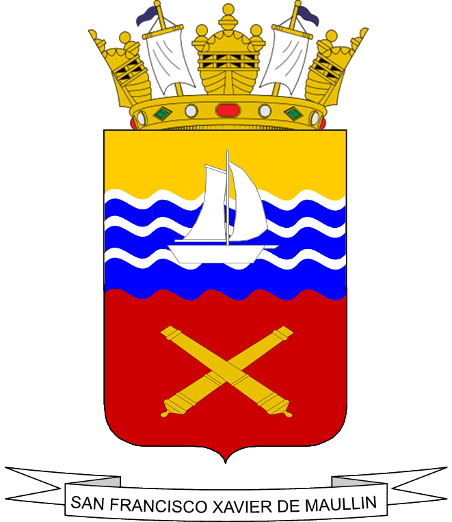 Coat of arms of Maullin commune (Chile)